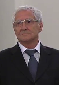 Mikhail Itkis at the State Prize of the Russian Federation awards ceremony